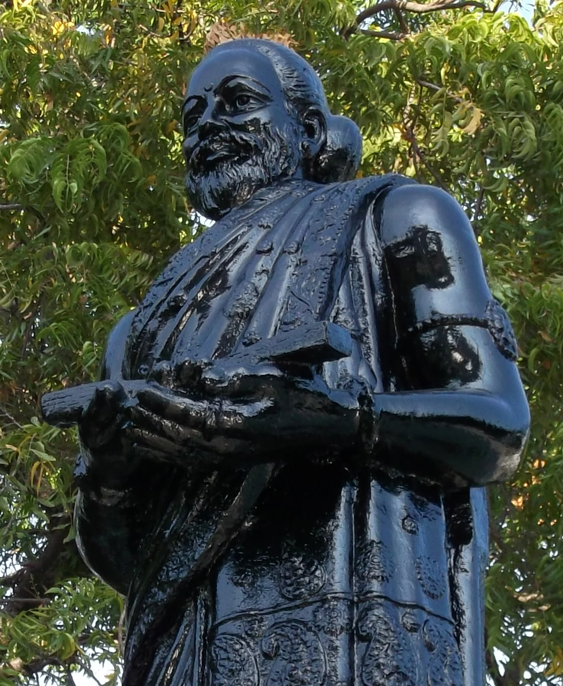 MarinaBeach Kambar cropped